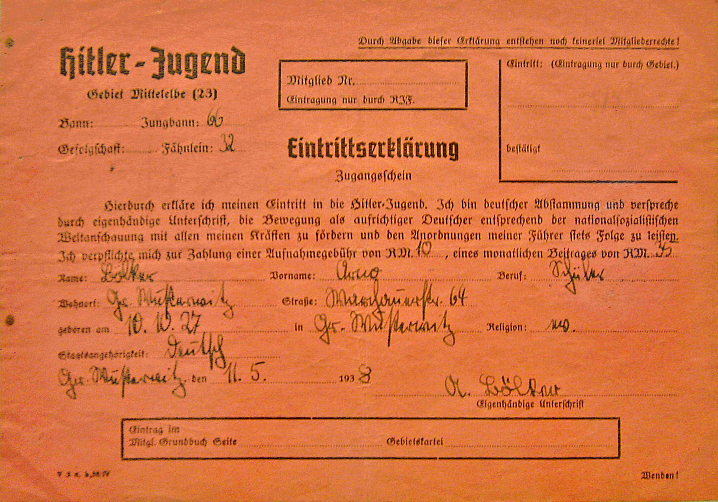 Declaration of enrollment in the Hitler Youth dated 1938. An exhibit of the German Historical Museum in Berlin